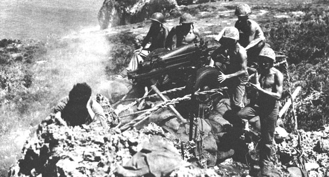 This 75mm pack howitzer, nicknamed "Miss Connie," is firing into a Japanese-held cave from the brink of a sheer cliff in southern Tinian. The gun was locked securely in this unusual position after parts were hand-carried to the cliff's edge. Department of Defense Photo (USMC) 94660